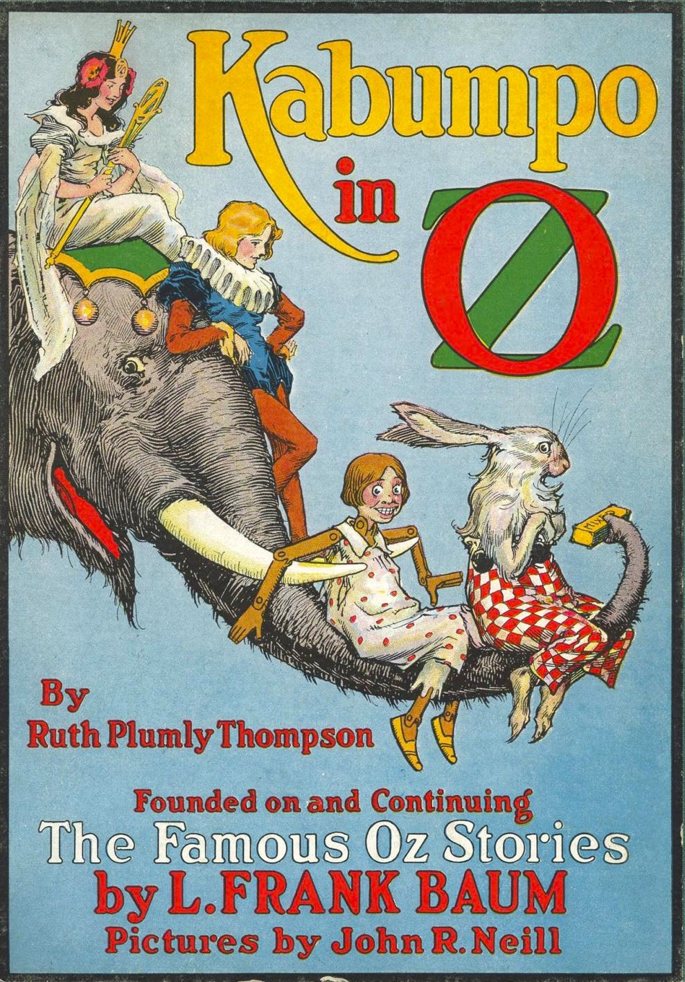 Cover of Kabumpo in Oz